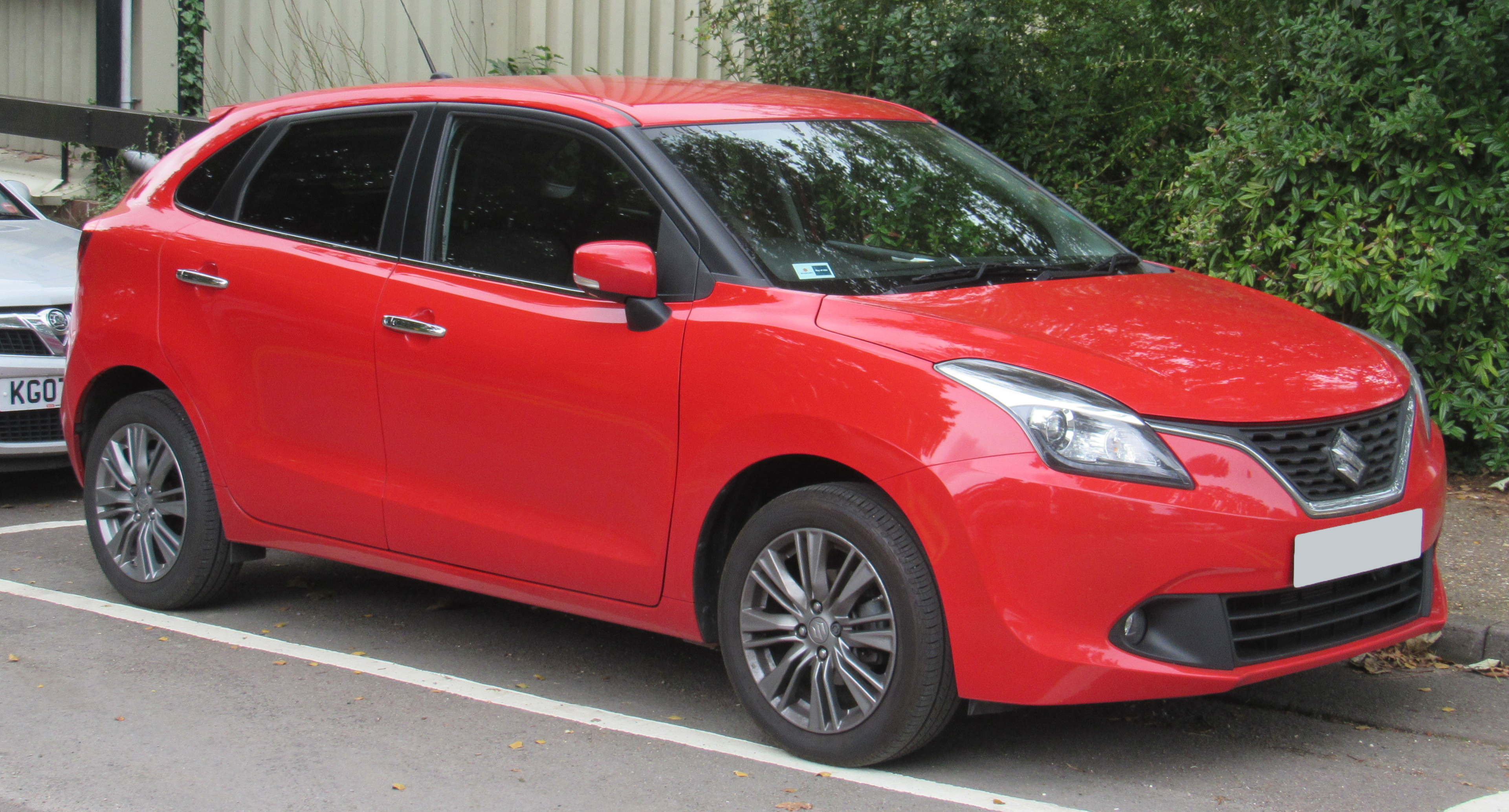 2016 Suzuki Baleno SZ5 Boosterjet 1.0 Front Taken in Leamington Spa